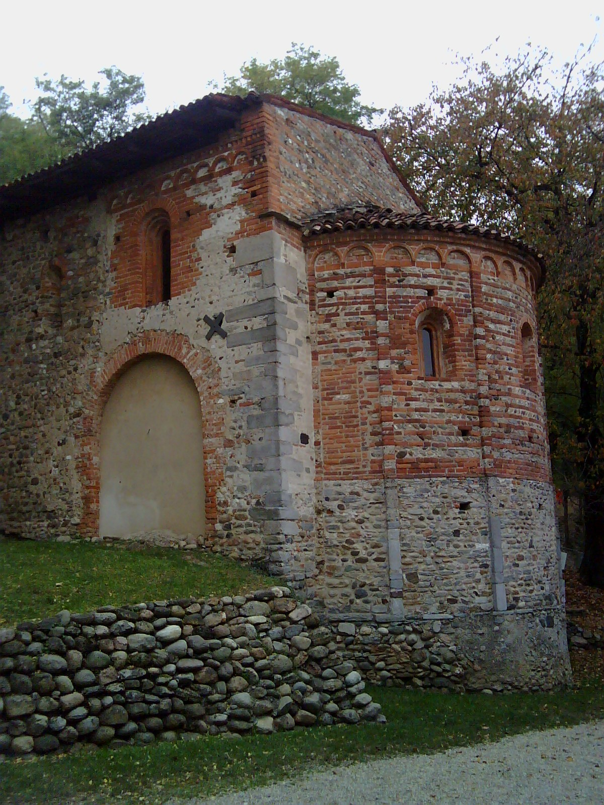 Church of Santa Maria di Torba, Gornate olona (Va) (Italy)